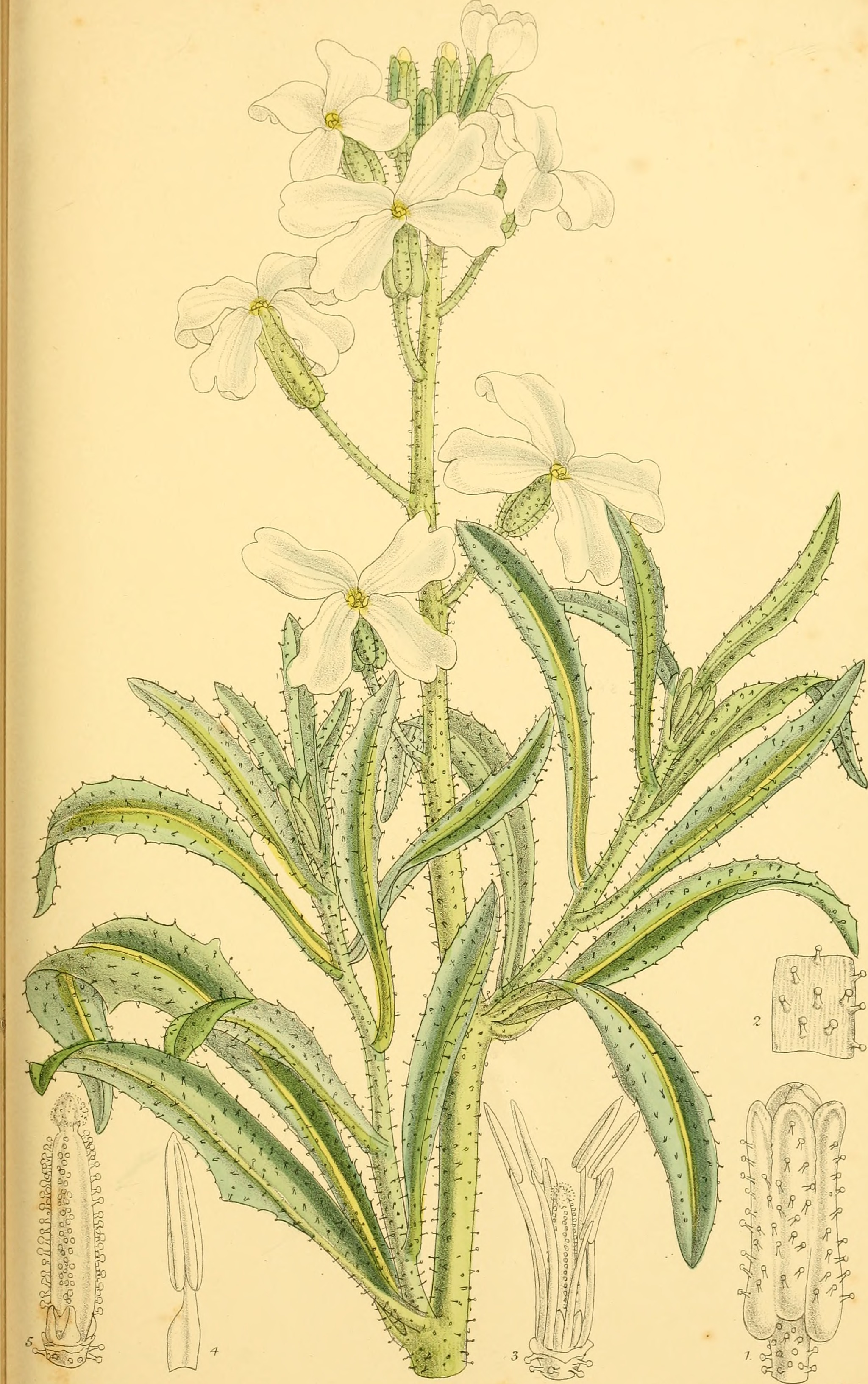 Title: Bulletin de la Société des sciences naturelles de l'Ouest de la France Year: 1900 (1900s) Authors: Société des sciences naturelles de l'Ouest de la France Subjects: Natural history -- France Publisher: Nantes, Société des sciences naturelles de l'Ouest de la France (etc. ) Text Appearing Before Image: 7703 Text Appearing After Image: M S cLél.J.NRtchlLtK "%ncentBrodks,T)ay ScSonUflmp LTrleeve &-C°Loixdo